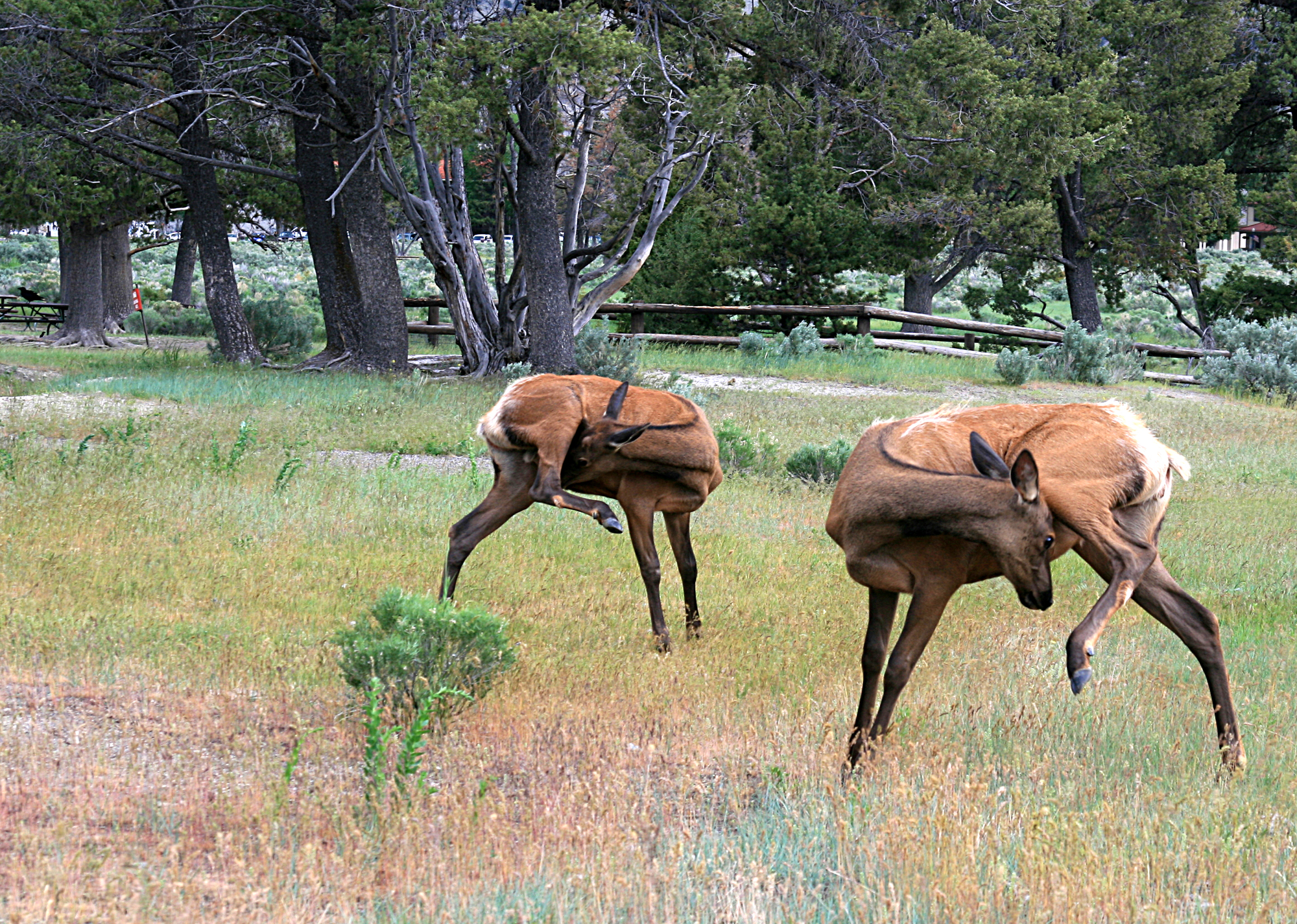 Elks, Cervus canadensis in Yellowstone National Park